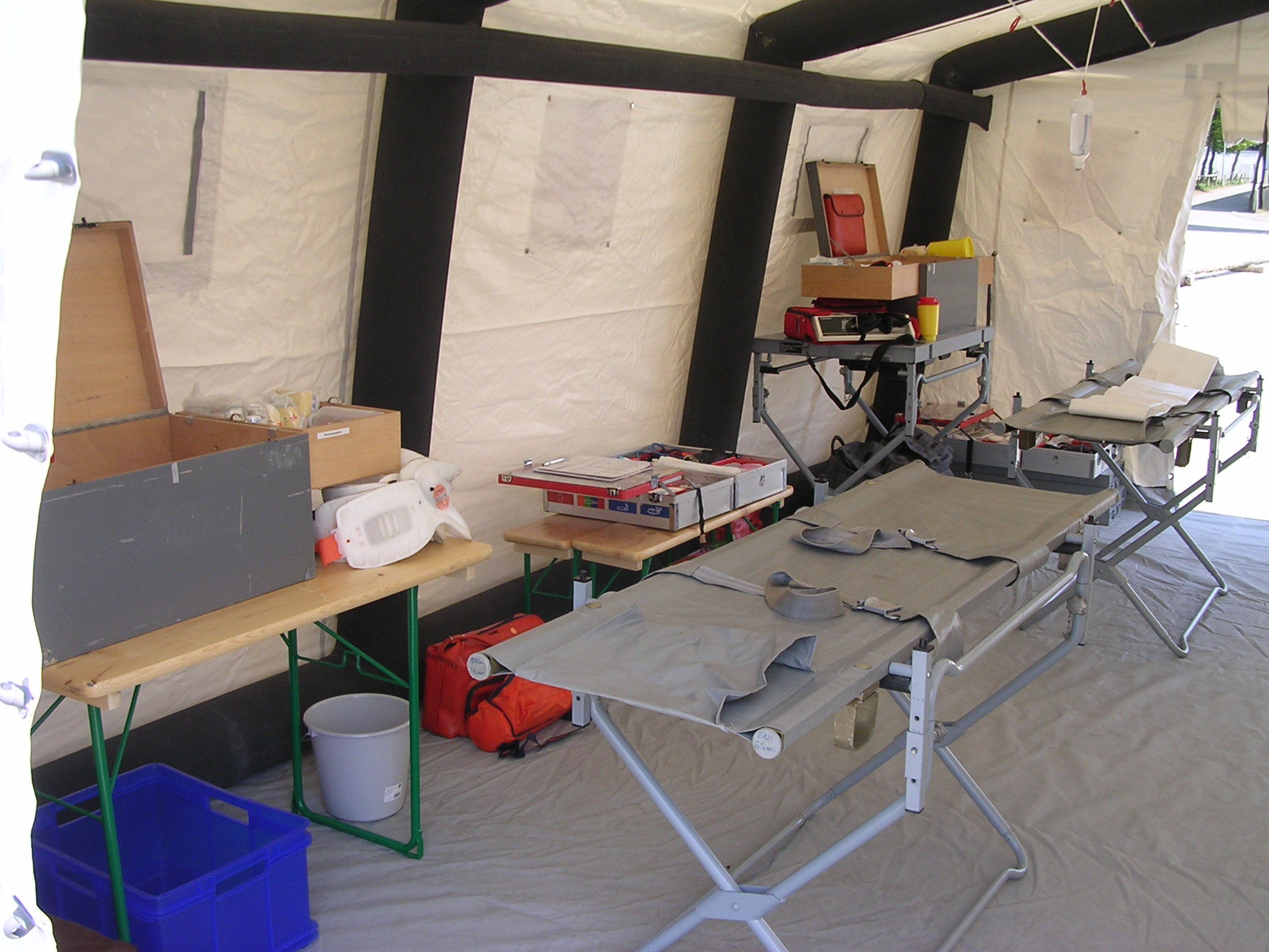 Inside view (left side) of a standard medical tent for triage categorie 1 as used in Bavarian Red Cross (Germany) 50 victims/hr. disaster casualty station, featuring equipment of 2nd medical rapid disaster response group of county of Ebersberg.